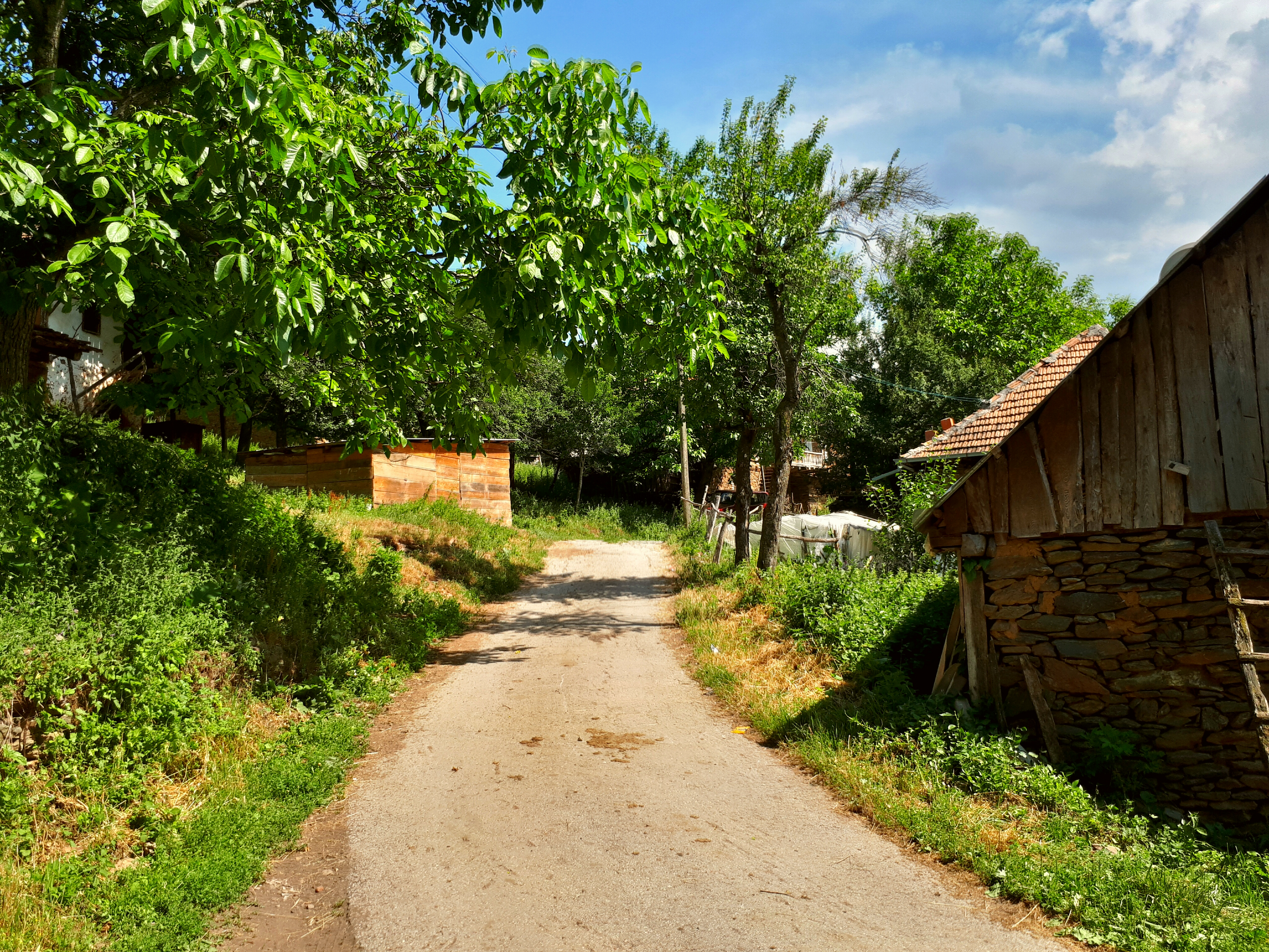 Street in the village Kosovo, Macedonia